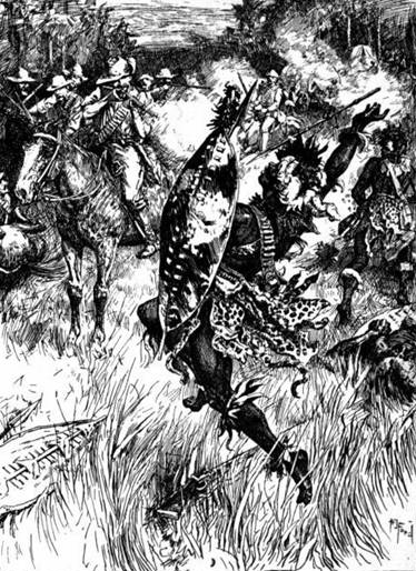 Illustration of Frederick Russell Burnham, with the Shangani Patrol, shooting a Matabele Warior (December 3, 1893)